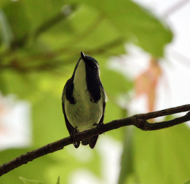 Ultramarine Flycatcher Ficedula superciliaris in Kullu District of Himachal Pradesh, India.